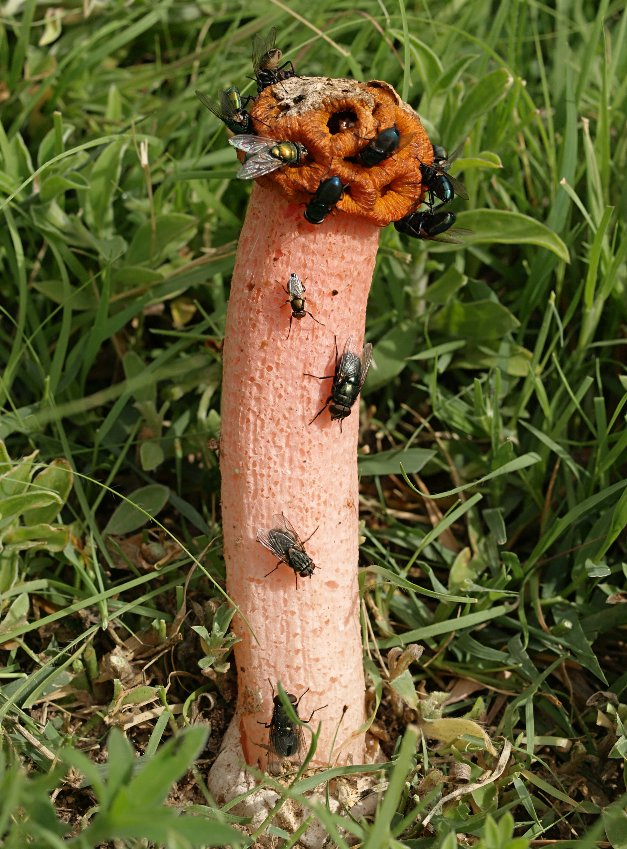 The stinkhorn fungus Lysurus periphragmoides (Klotzsch) Dring, covered in flies. Specimen found in eastern New Mexico, USA.